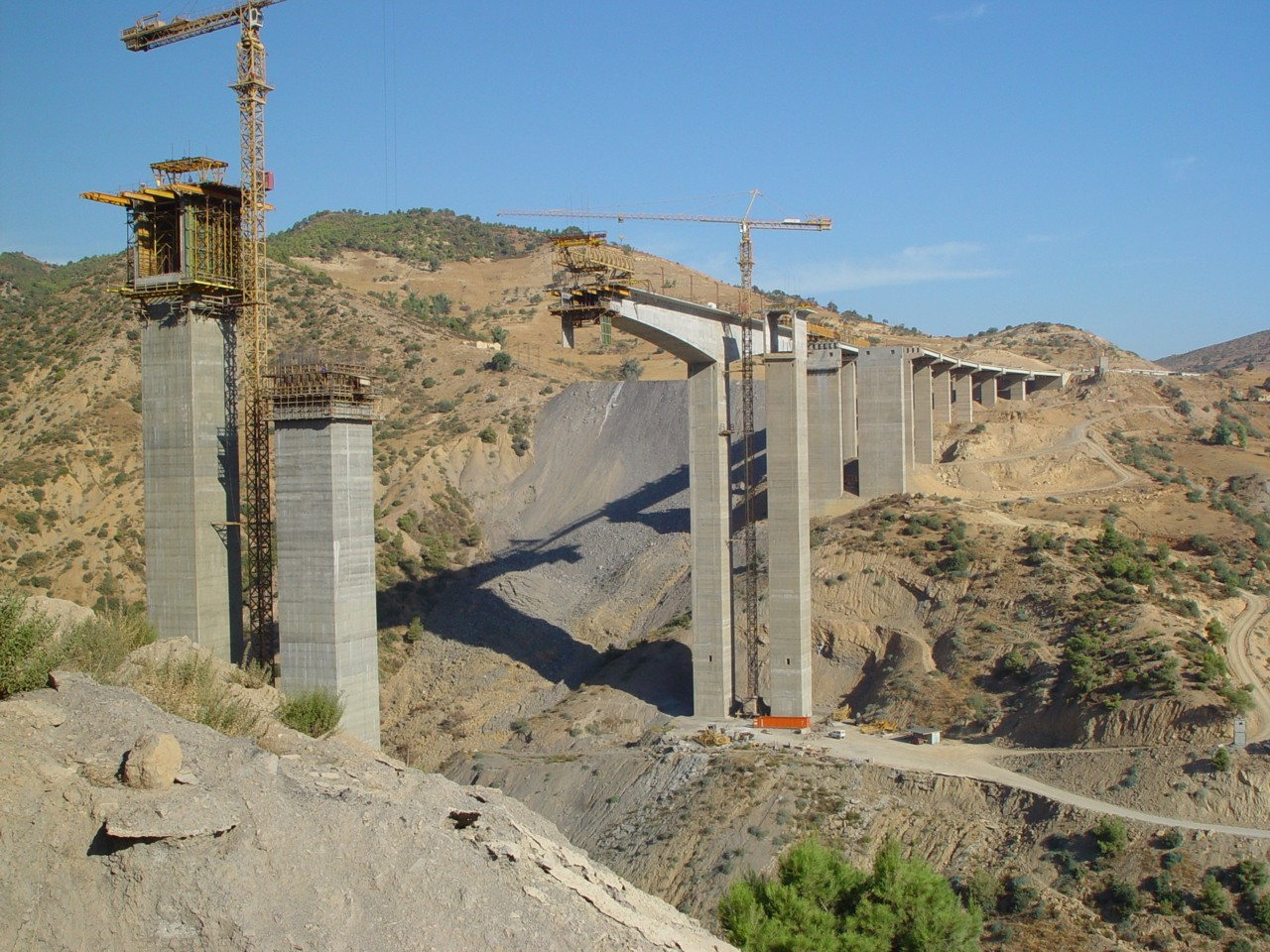 A highway bridge near Aïn Turk, Algeria